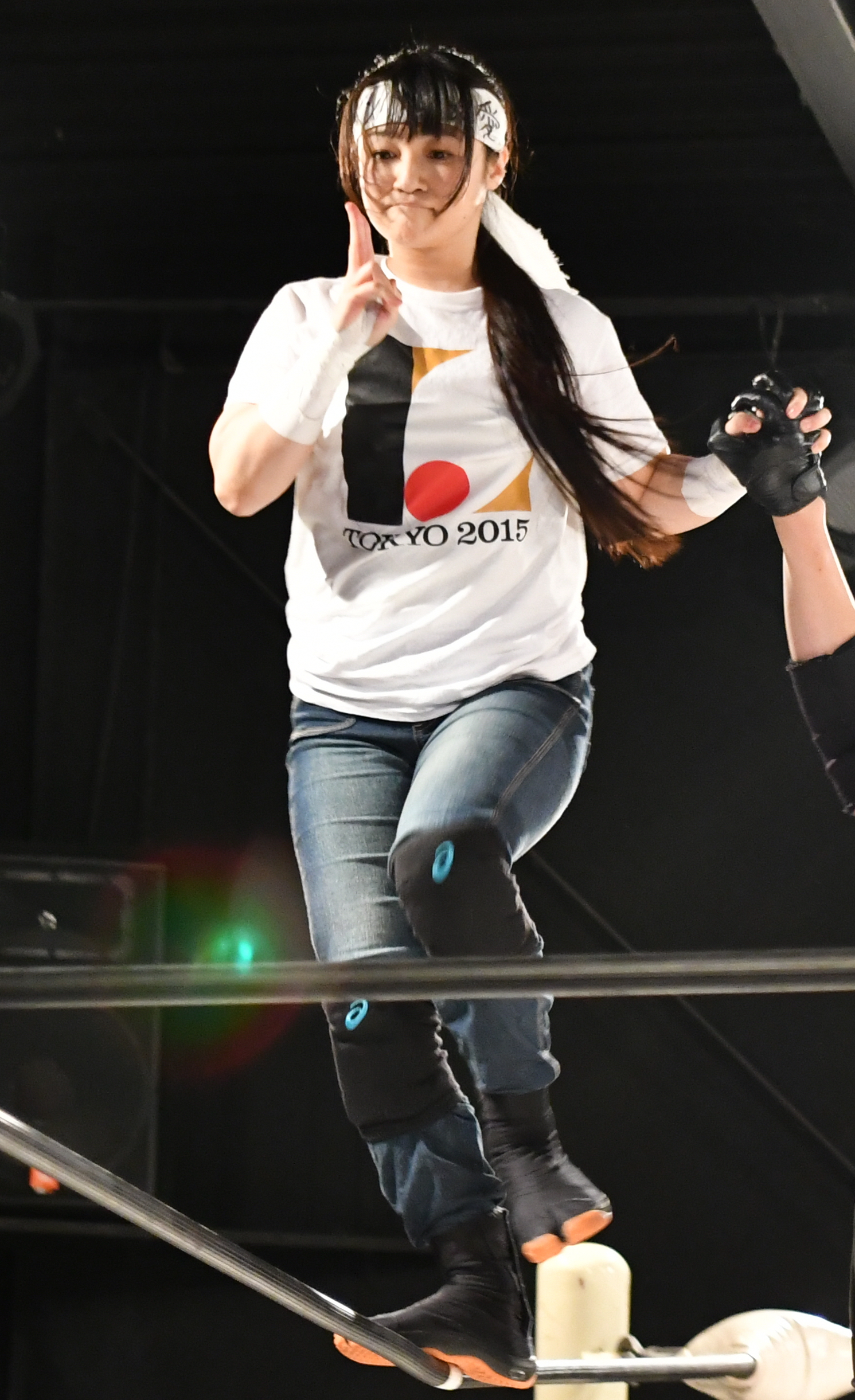 Ai Shimizu (June 16, 2016 at Warabi Wrestle Arena)